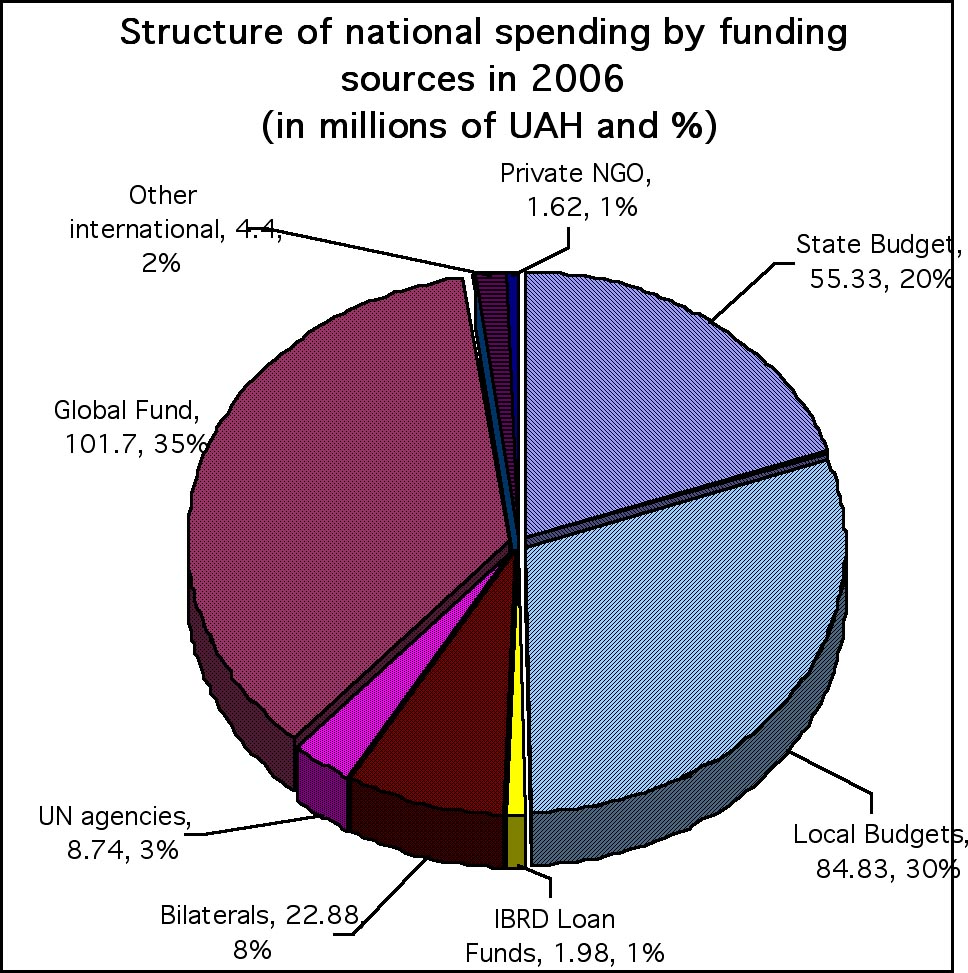 Structure of national anti-AIDS spending by funding; sources in 2006